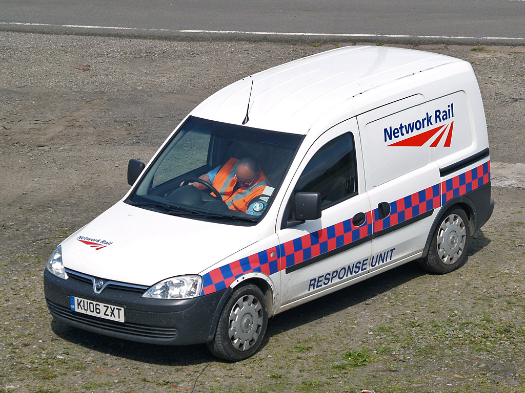 Network Rail Bedford van KU06 ZXT driven by a Manchester North mobile operations manager arrives at Castleton East Junction signal box. Wednesday 11th June 2008